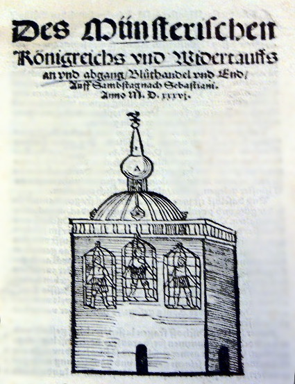 German Historical Museum ( Berlin ). Pamphlet "The Kingdom of Munster" about torture and execution of the leaders of the anabaptist rebellion, 1536.